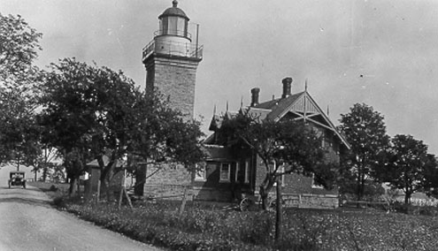 Lighthouse at Point Gratiot on Lake Erie, near Dunkirk, New York